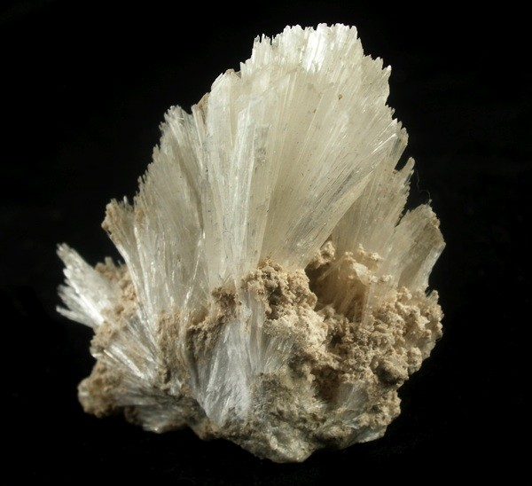 Hydroboracite Locality: Death Valley, Inyo County, California, USA (Locality at ) Size: 4.7 x 3.8 x 3.0 cm. Hydroboracite is a rare hydrated borate. This is a very fine specimen of diverging sprays of large, waxy lustre, blades nicely set in matrix. I like the way the largest spray is front and center, in the most prominent position. Old material from Death Valley. Rarely crystallized in such quality as you see here.